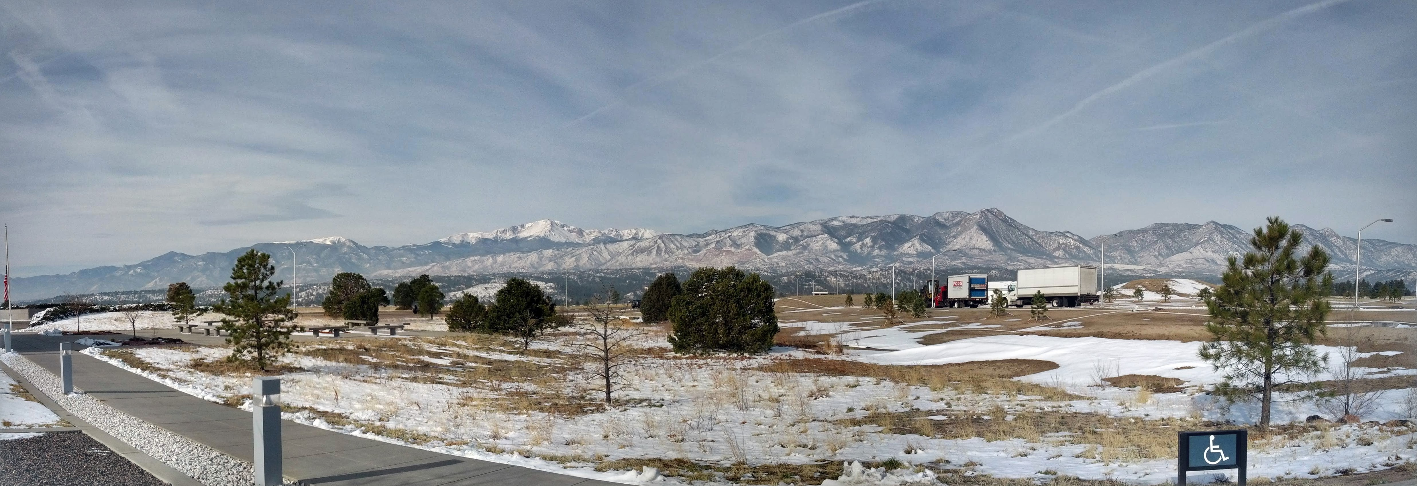 Air Force Academy, Colorado - view from south gate